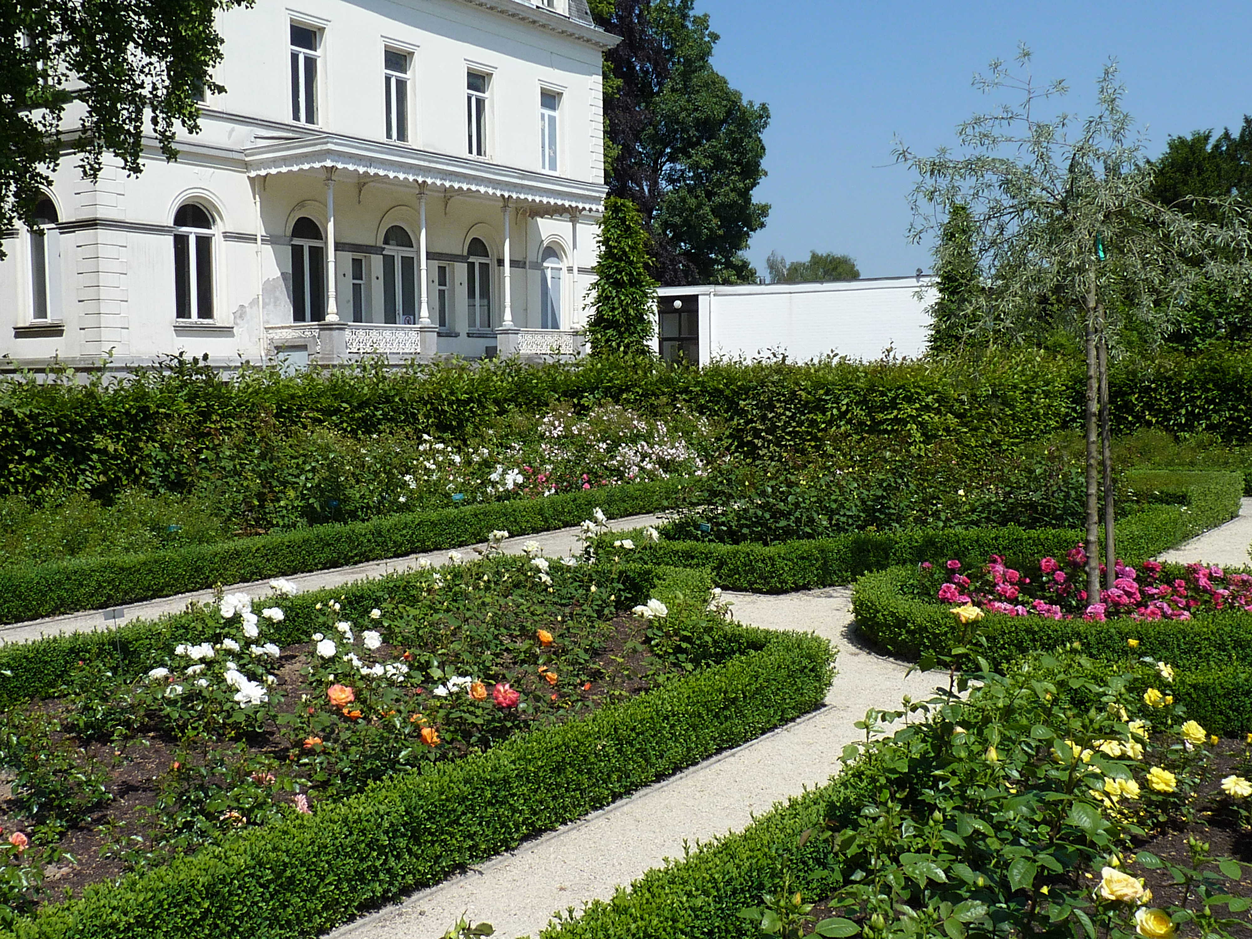 International rose garden of Kortrijk, Belgium.